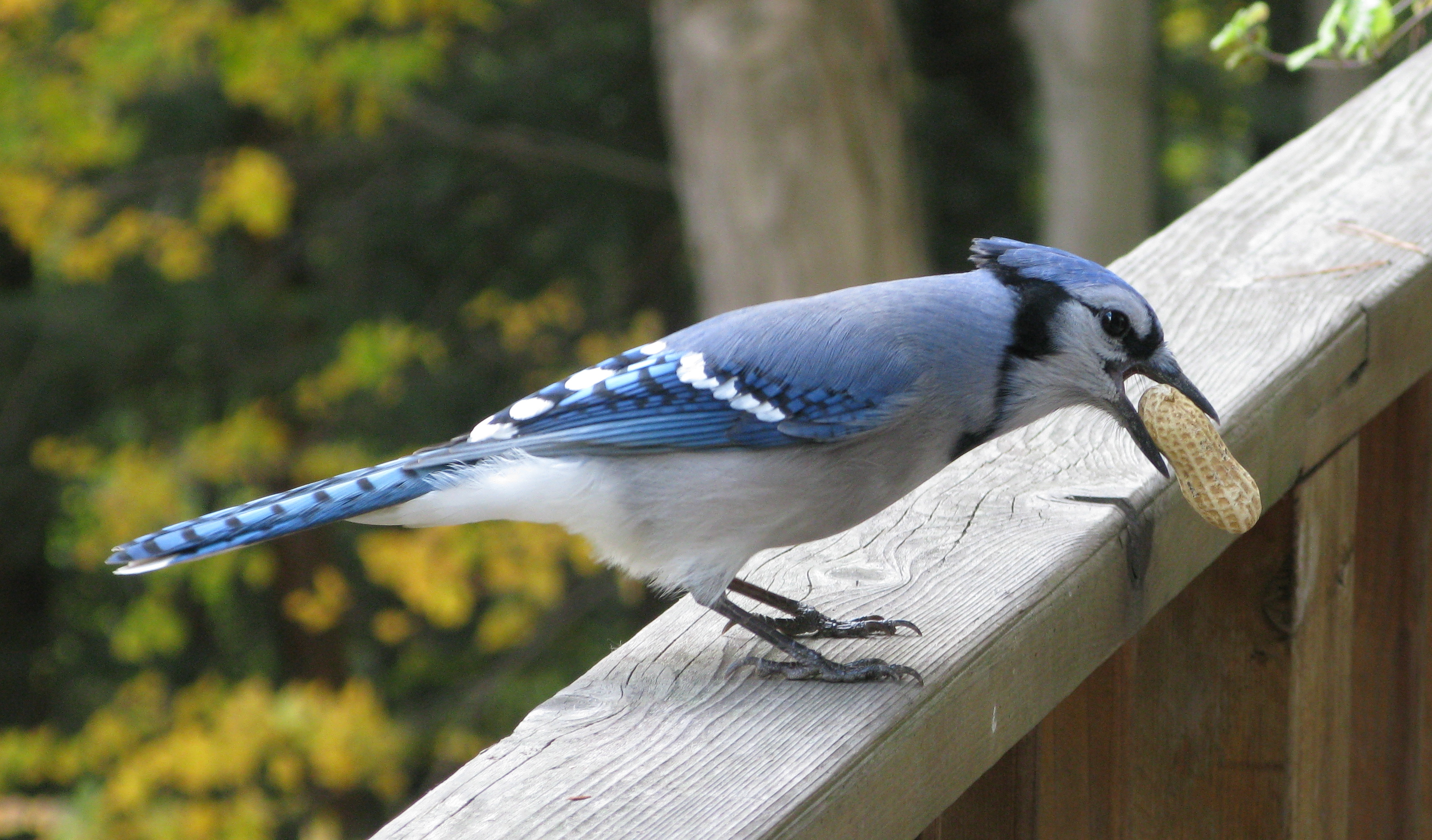 A Blue Jay (Cyanocitta cristata) with a peanut in its beak